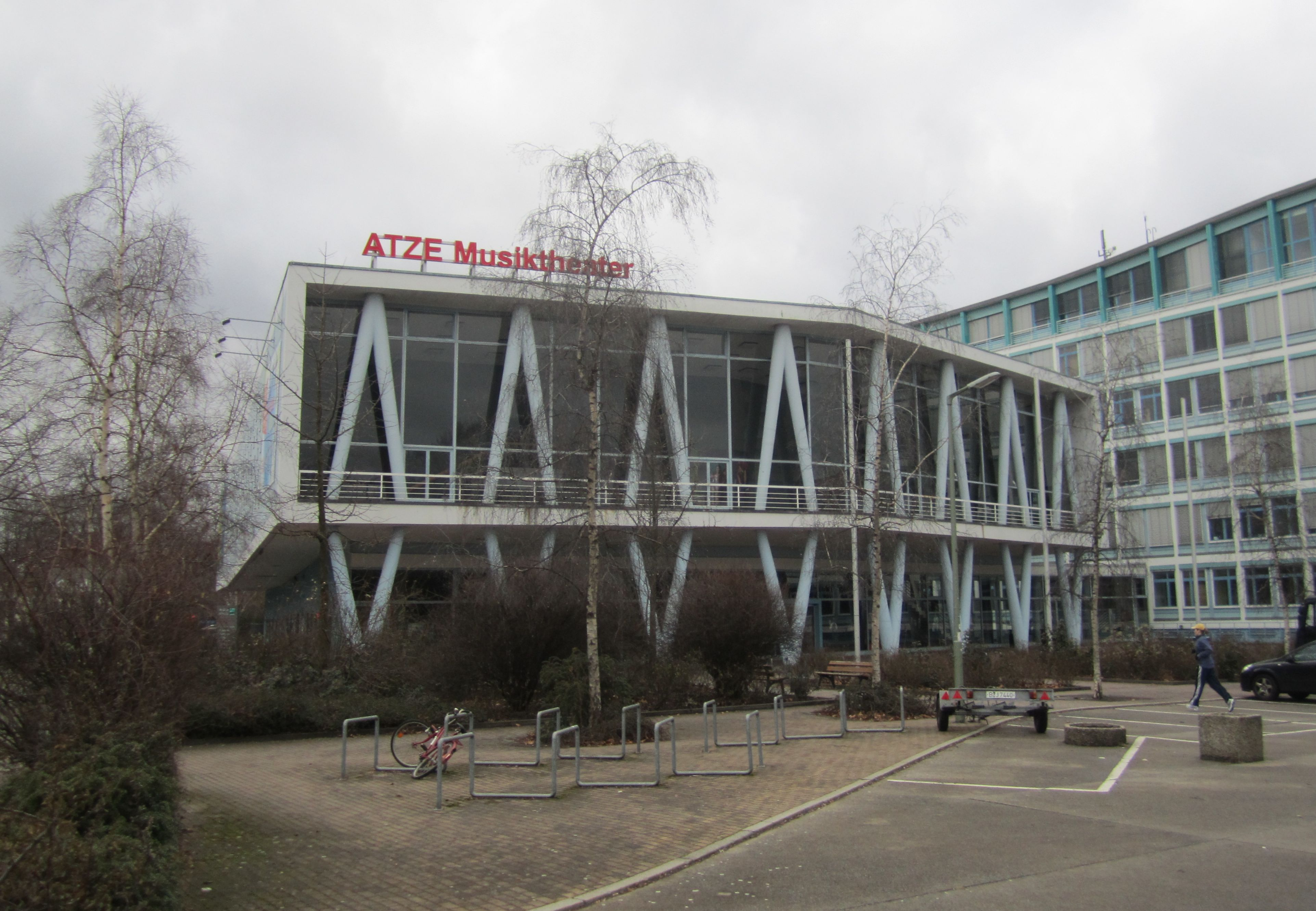 ATZE music theatre, Berlin, Germany.